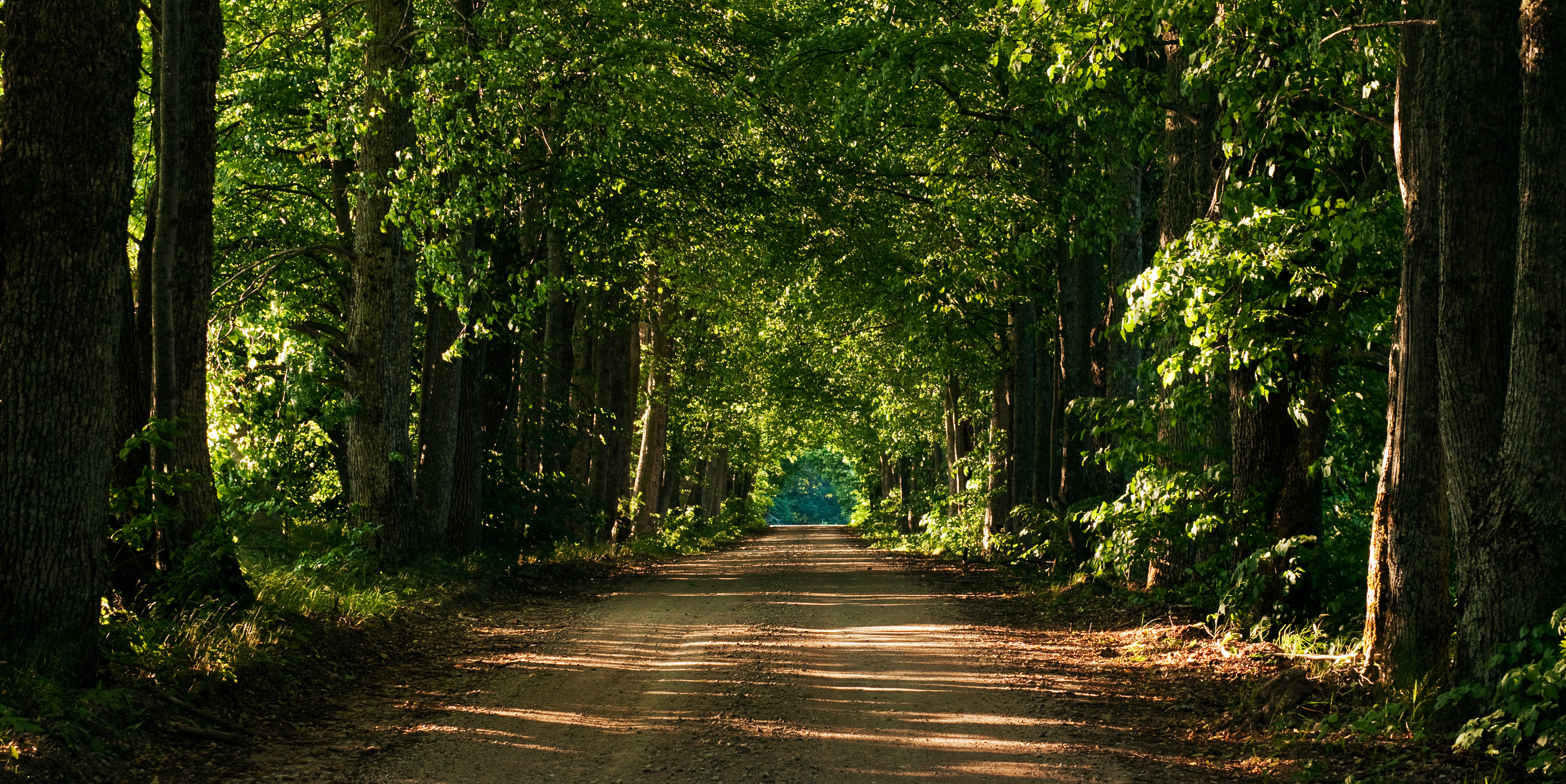 Alley of Saare Manor leading towards Saarjärve lake. Summer 2010.